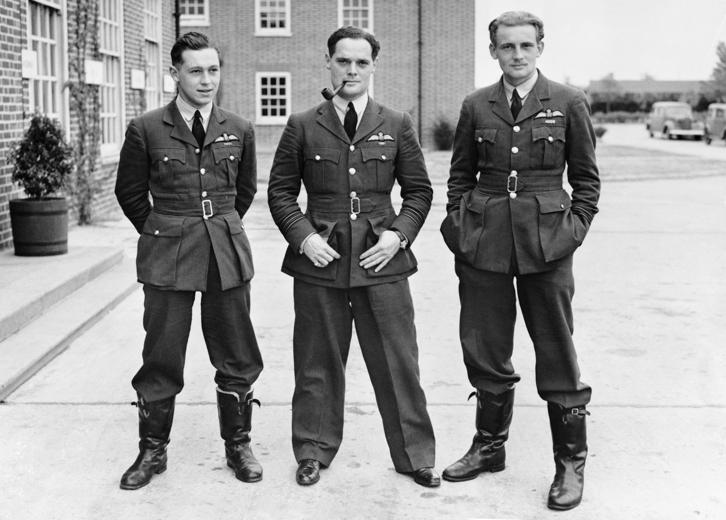 Royal Air Force Fighter Command, 1939-1945. Three decorated fighter pilots of No. 242 (Canadian) Squadron RAF, standing outside the Officers' Mess at Duxford, Cambridgeshire. They are (left to right): Pilot Officer W L McKnight, Acting Squadron Leader D R S Bader (Commanding Officer), and Acting Flight Lieutenant G E Ball. By the date this photograph was taken these pilots had, between them, shot down over thirty enemy aircraft.